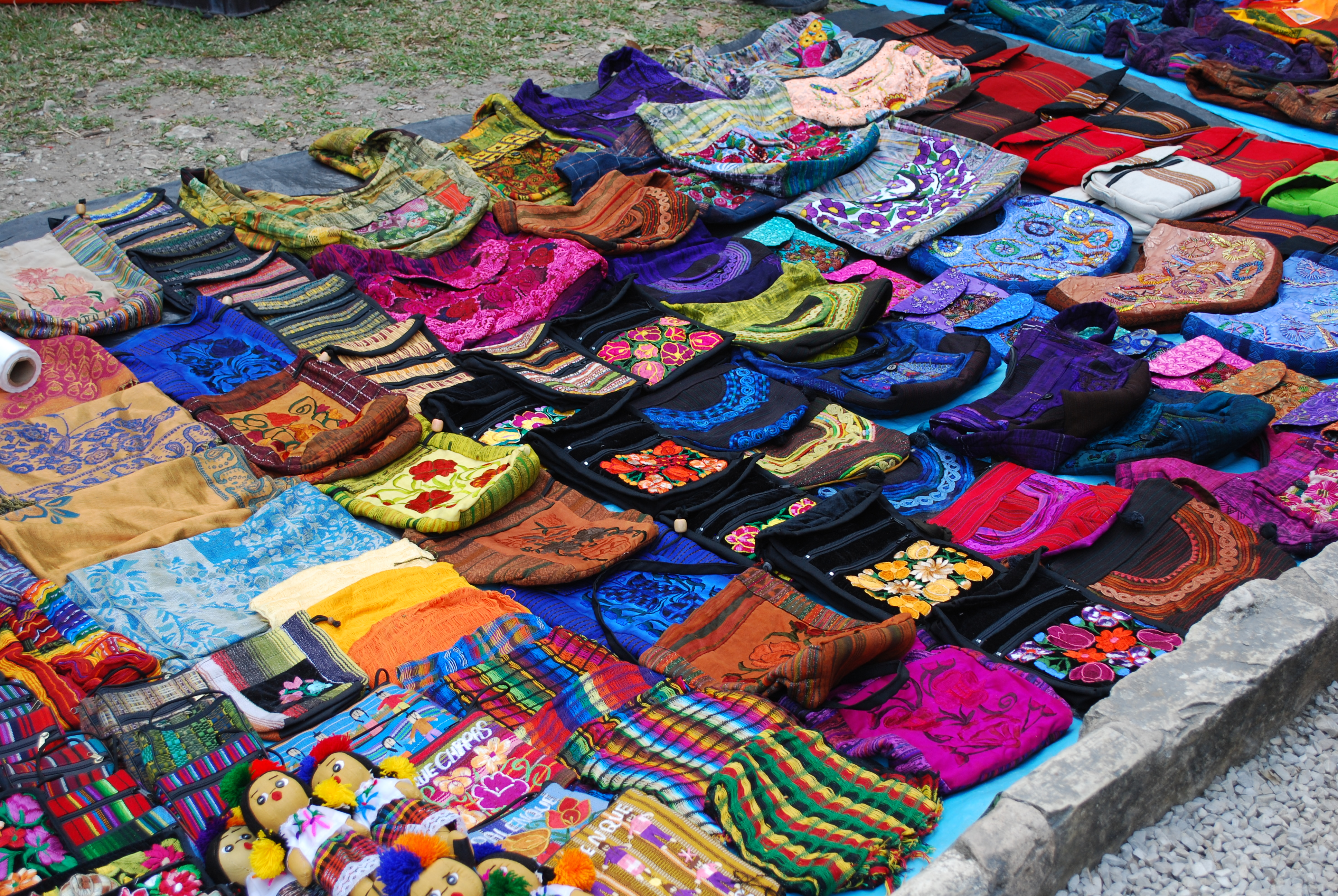 Textile crafts for sale at Palenque, Chiapas, Mexico